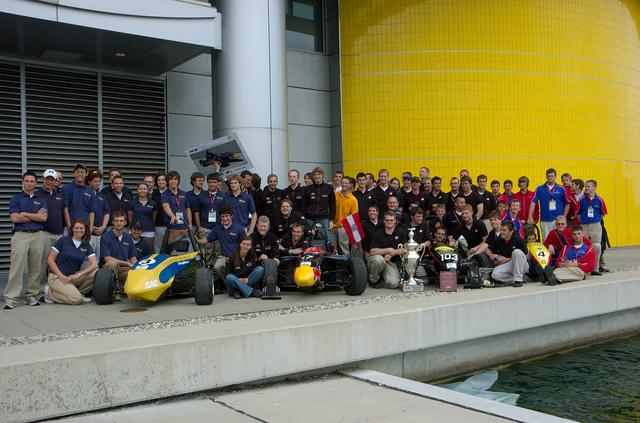 This is property of the University of Wisconsin - Madison Formula SAE Team. We have these images posted for anyone's use at our image gallery. This file is located at the following location